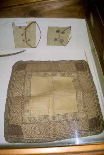 Purses and mat woven of Hala (Pandanus tectorius) and Hibiscus (Hibiscus tiliaceus) fibers. Majuro Atoll, Marshall Islands.